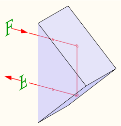 The position of the second "F" is false ! Jean-Jacques MILAN 21:10, 3 February 2008 (UTC)